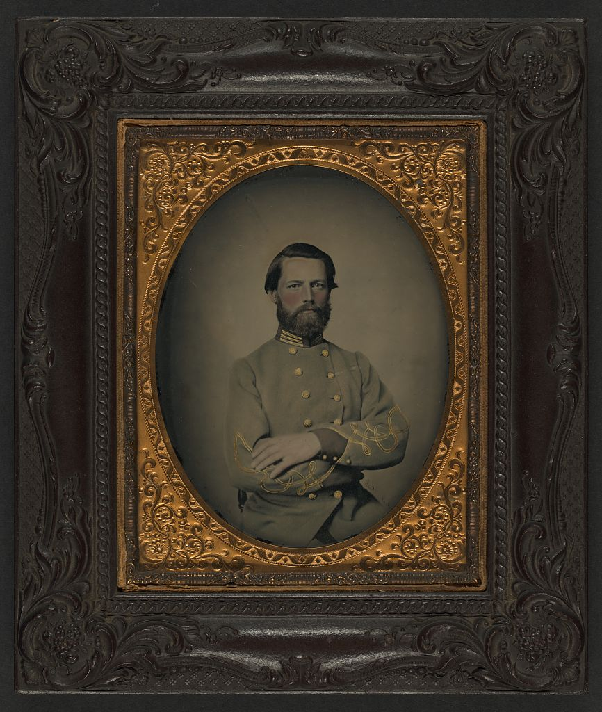 Rees, Charles R.,, photographer. [Captain William W. Cosby of H Company, 2nd Virginia Light Artillery Regiment in uniform] [between 1861 and 1865] 1 photograph : approximate half-plate ambrotype, hand-colored ; 20.6 x 17.5 cm (frame) Notes: Title devised by Library staff. Frame: Thermoplastic frame fruit and scroll pattern. Additional information in collections file. Gift; Tom Liljenquist; 2010; (DLC/PP-2010:105). Subjects: Cosby, William W.--(William Woodson),--1824-1885. Confederate States of America.--Army.--Virginia Artillery Regiment, 2nd (1862)--People. Soldiers--Confederate--1870-1880. Military uniforms--Confederate--1870-1880. United States--History--Civil War, 1861-1865--Military personnel--Confederate. Format: Portrait photographs--1860-1870. Ambrotypes--Hand-colored--1860-1870. Repository: Library of Congress, Prints and Photographs Division, Washington, D.C. 20540 USA, Part Of: Ambrotype/Tintype filing series (Library of Congress) (DLC) 2010650518 Liljenquist Family collection (Library of Congress) (DLC) 2010650519 More information about this collection is available at Persistent URL: Call Number: AMB/TIN no. 5045